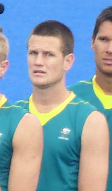 2012 Olympic field hockey team Australia at the Riverbank Arena before the game against Spain